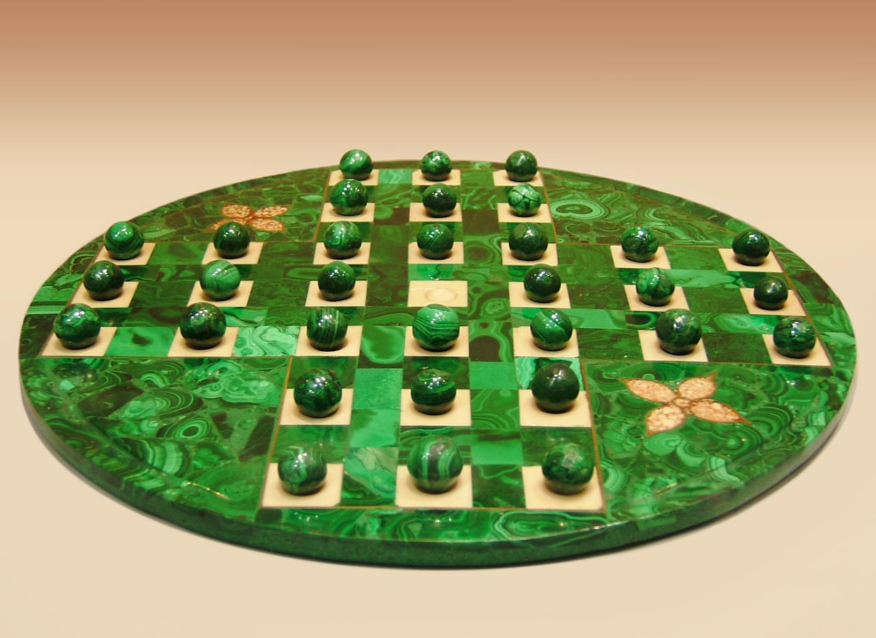 Semi-precious stone peg solitaire game (standard „English“ version, 33 holes; edited version); original description was: Photo by Gnsin, taken in the parking lot in front of the South Korean pavilion of the Expo 2005, Aichi, Japan.